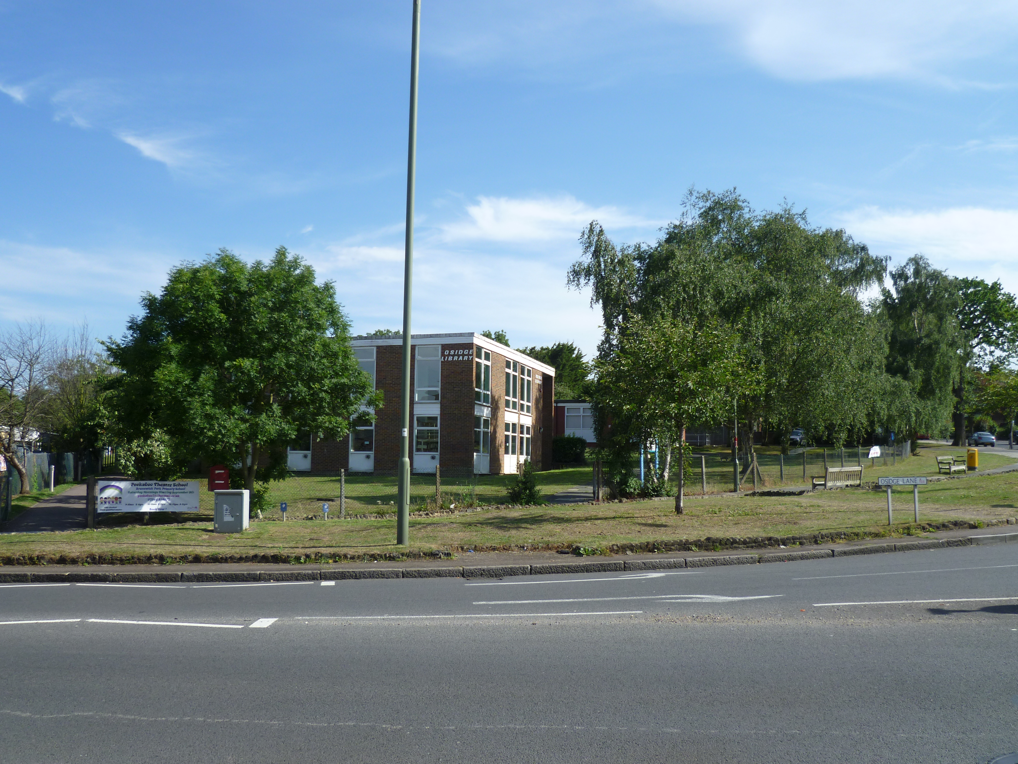 Osidge